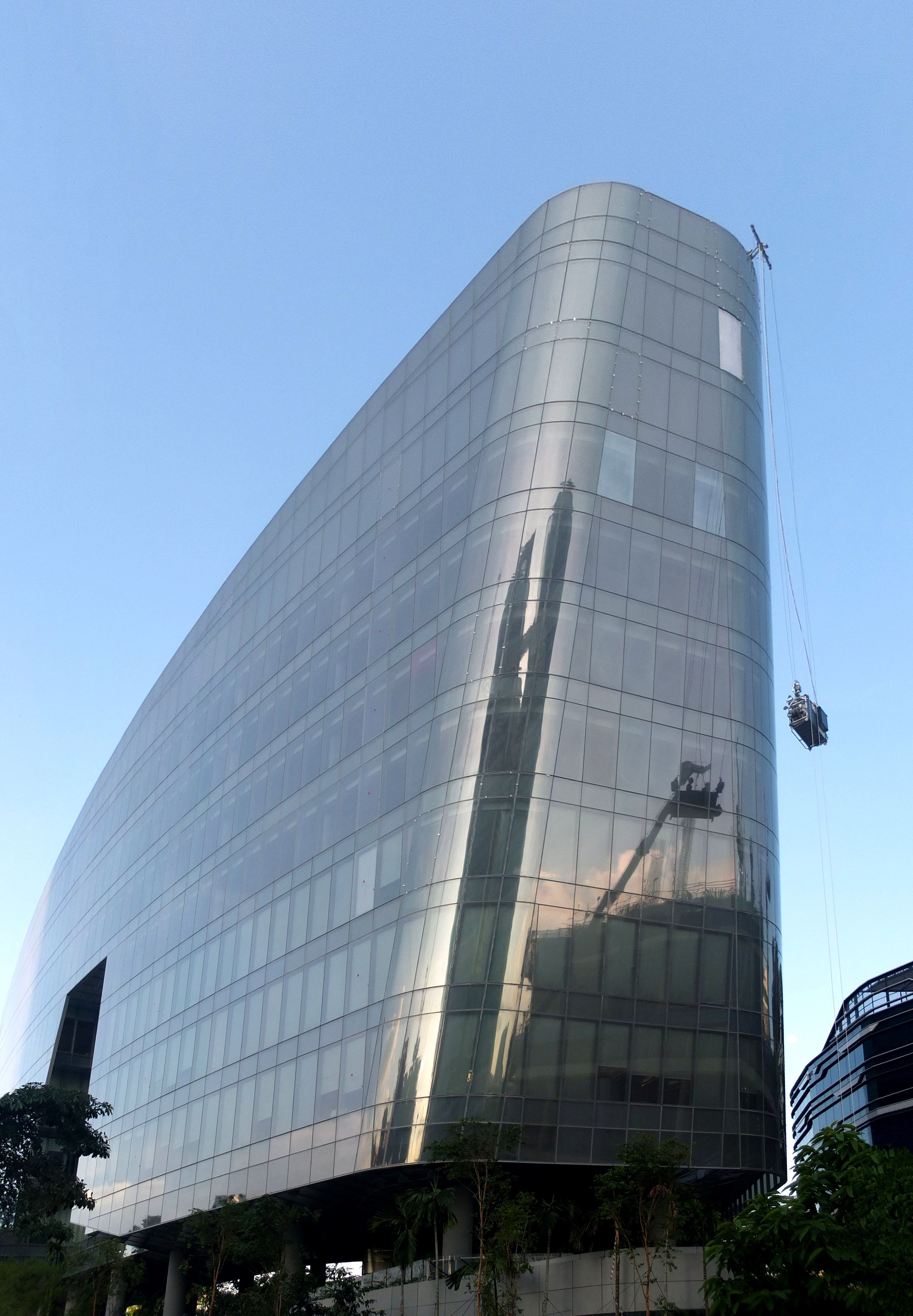 Picture of the Sandcrawler Building, Singapore Headquarters for Lucasfilm